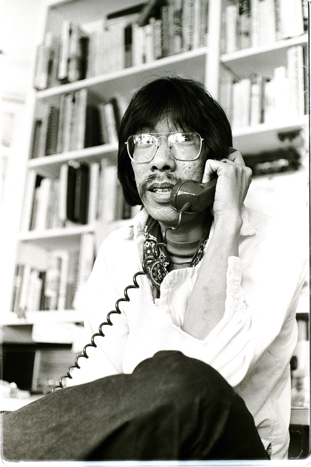 Writer Frank Chin on the telephone in 1975. Photo by Nancy Wong, San Francisco, California